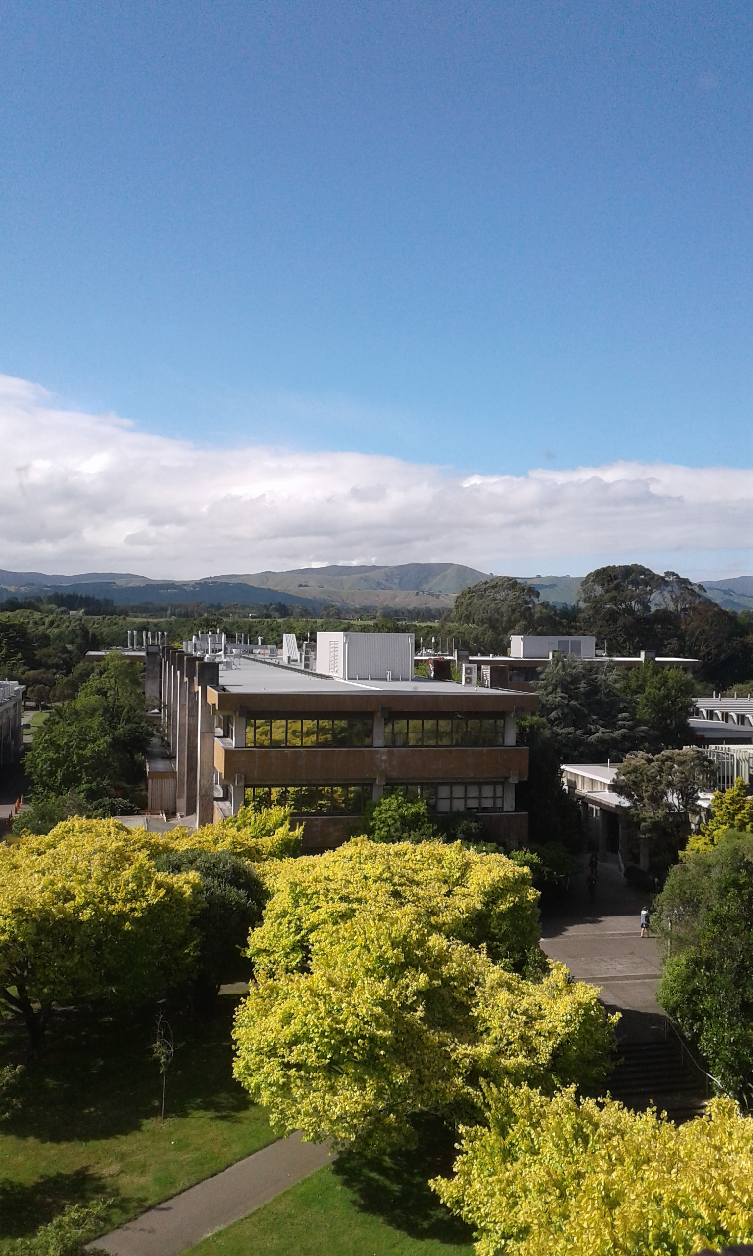 Palmerston North Campus in 2017.